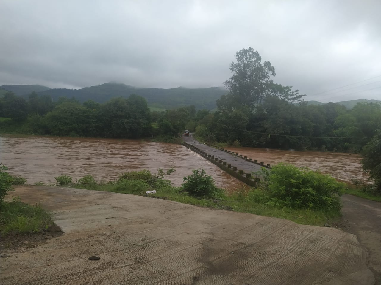 Gunjavani River